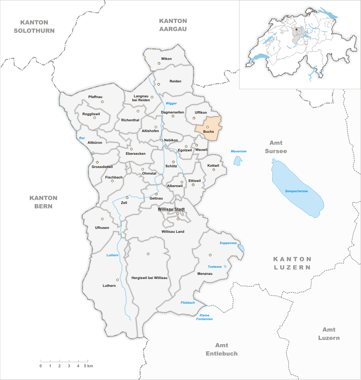 Municipality Buchs Artist: Tschubby